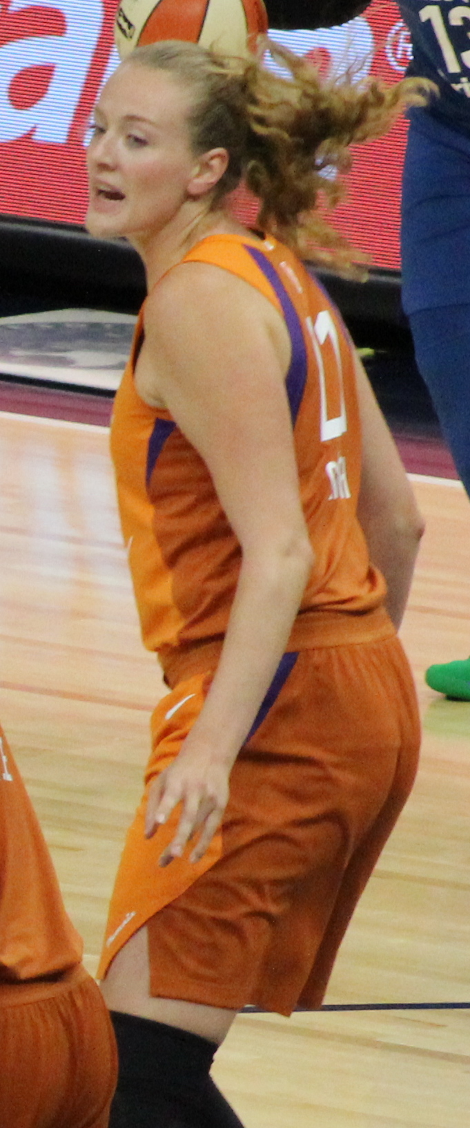 Marie Gülich of the Phoenix Mercury in 2018